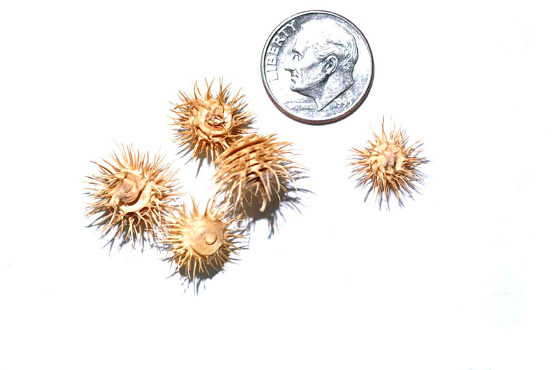 Seed pods of Medicago disciformis next to a U.S. dime for scale.